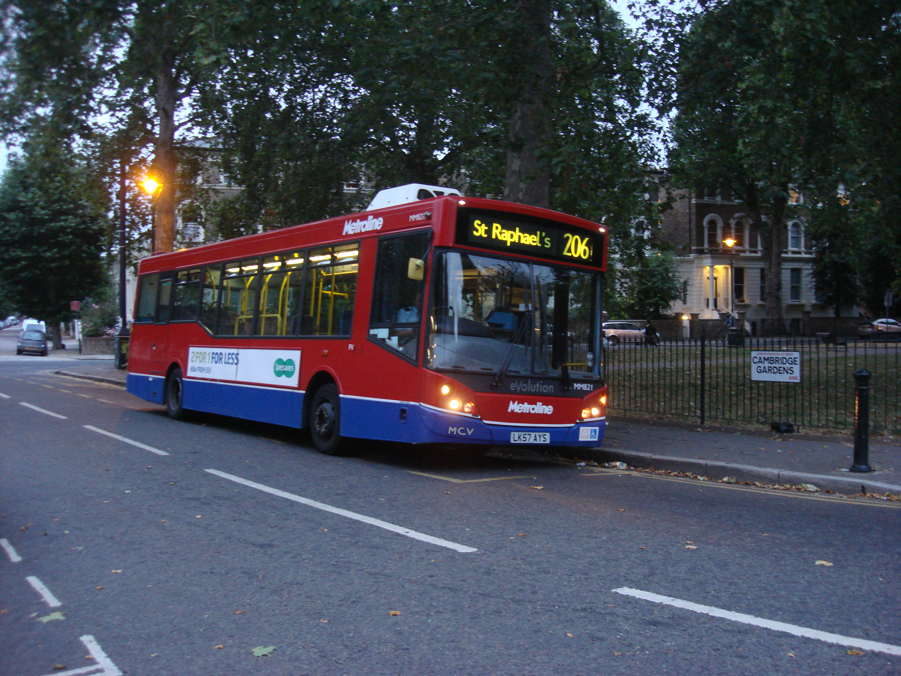 A London Bus .